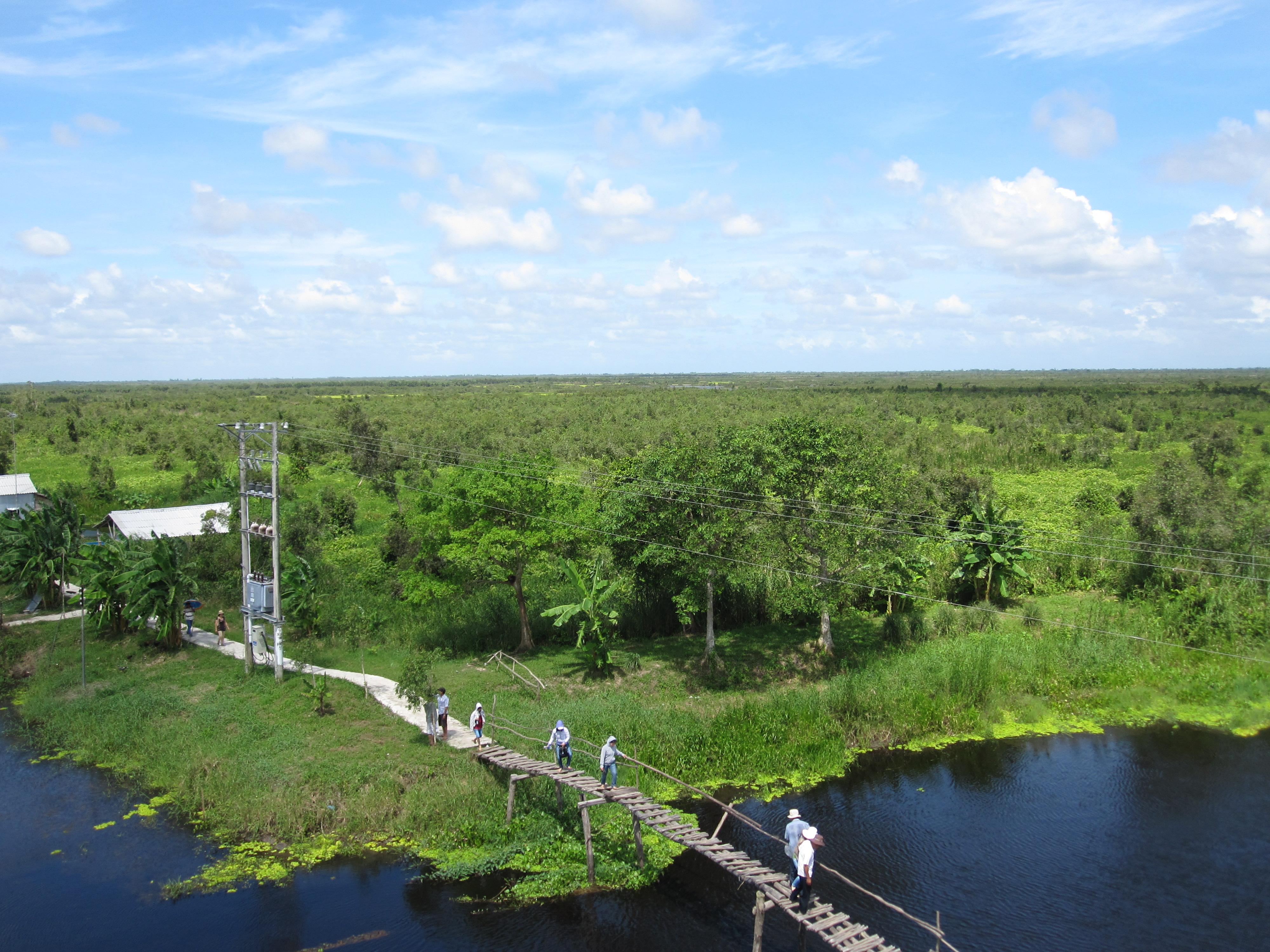 Rung U Minh Khong con cay rung nua